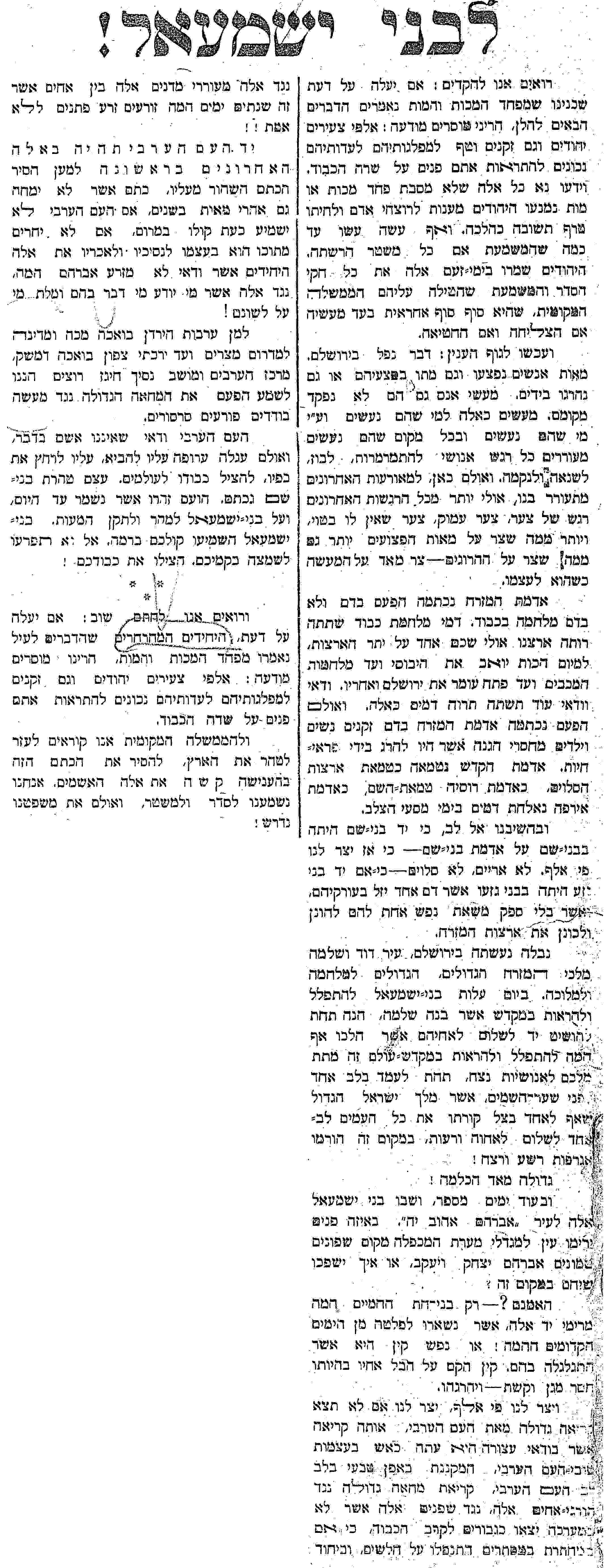 A Letter addressed to the Sons of Ishmael